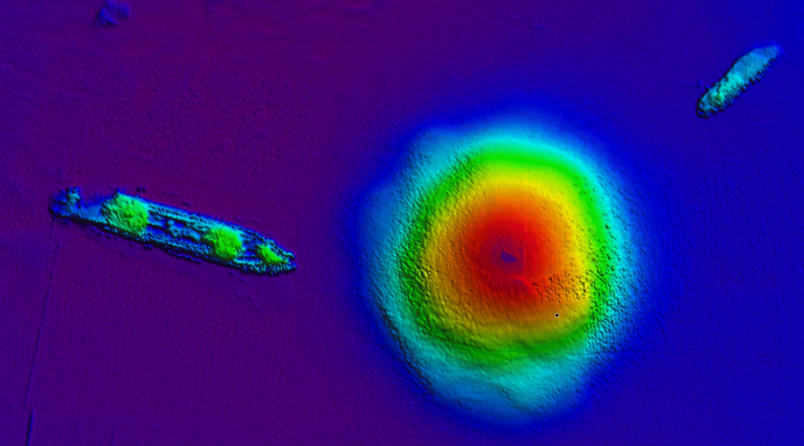 Multibeam data showing two sunken wrecks and a coral mound in Apra Harbor, Guam.